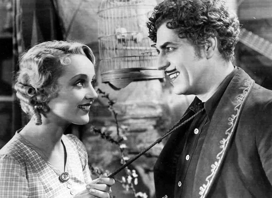 Publicity still for the film The Arizona Kid (1930), featuring Carole Lombard and Warner Baxter. Such images were taken on set during filming, or as part of an organized photo-shoot, by a studio photographer. They were then disseminated to the media and the public to promote the film (see Film still).